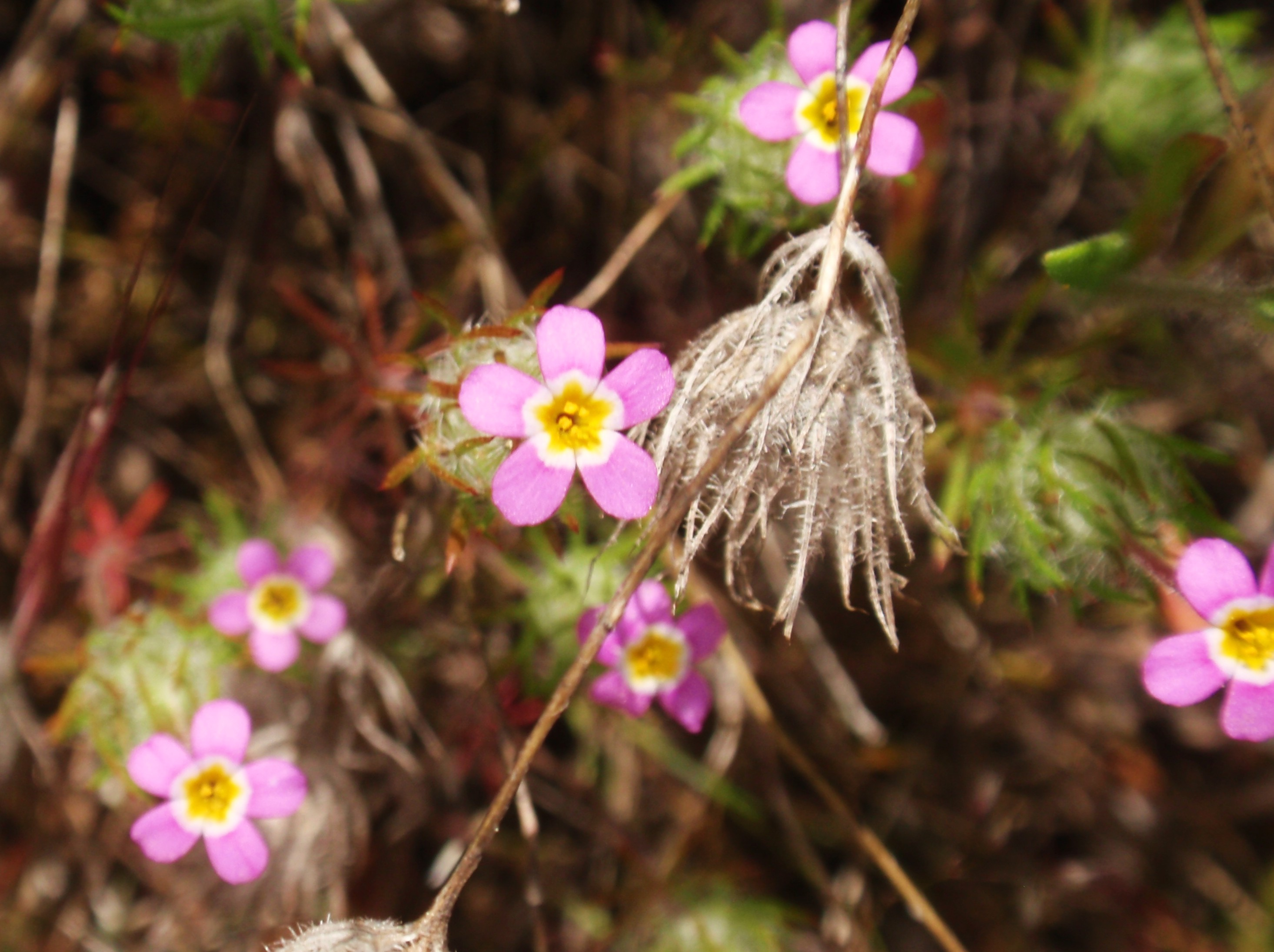 True Babystars; Mount Diablo State Park